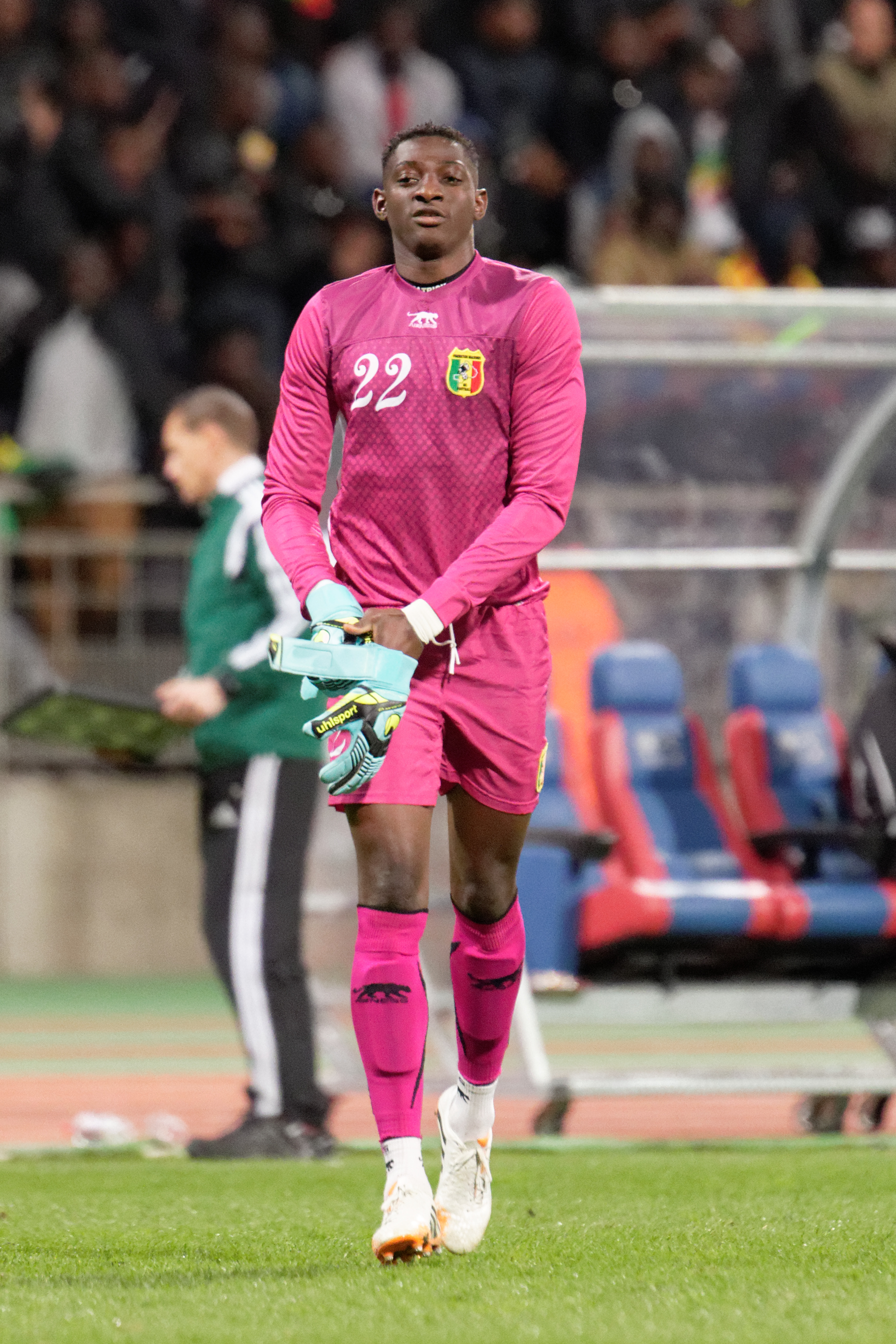 Mali vs Ghana, exhibition game at Paris, 31st March 2015.